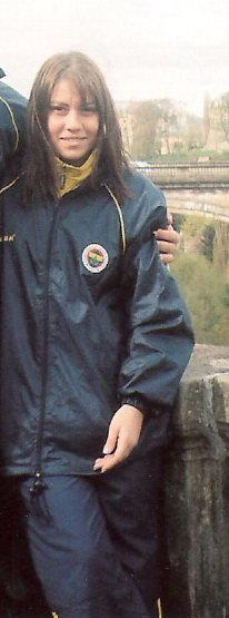 Turkish swimmer Merve Terzioğlu (first in Fenerbahçe, then Galatasaray and then in Delta State University)